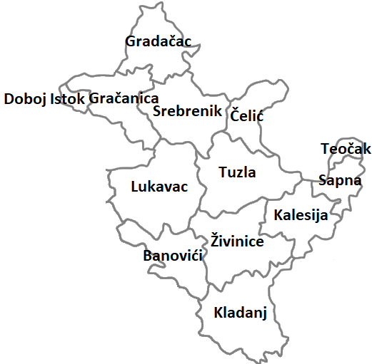 A map showing all municipalities and cities in the Canton Tuzla.